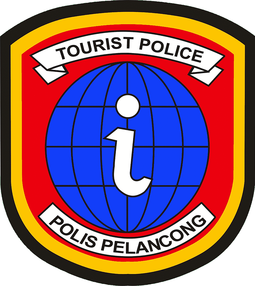 An official crest of Tourist Police Unit of Malaysia.